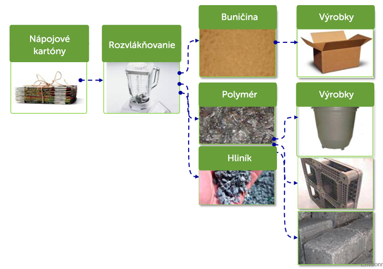 New usage of recycled parts of a TBA (Tetra Brick Aseptic) package in slovak.